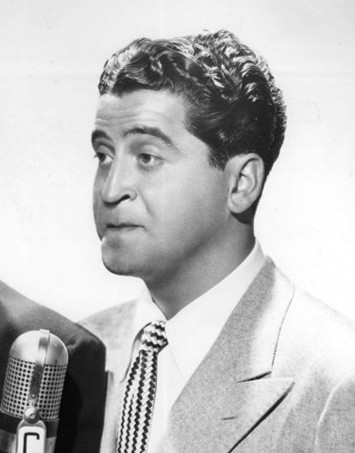 Photo of Hal March from the radio program "Sweeney and March". Sweeney went on to become a film director, while March continued as an actor.